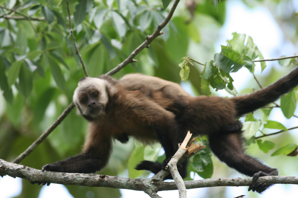 Female Brown Capuchin Monkey (Cebus apella macrocephalus) carrying young near Chalalan Lodge, Tuichi River, Madidi National Park, Bolivia